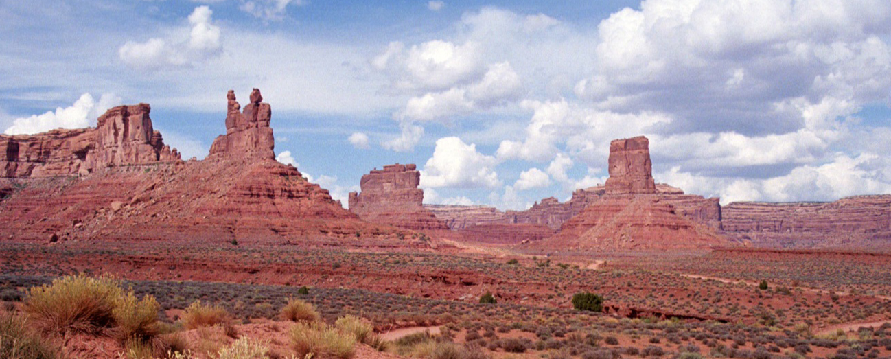 Monument Valley